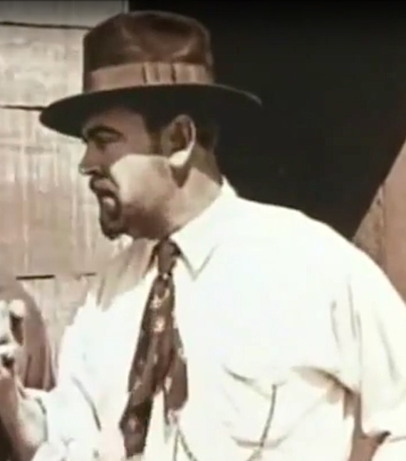 Canadian actor Charles Arling (I believe this is correct to my best ability)